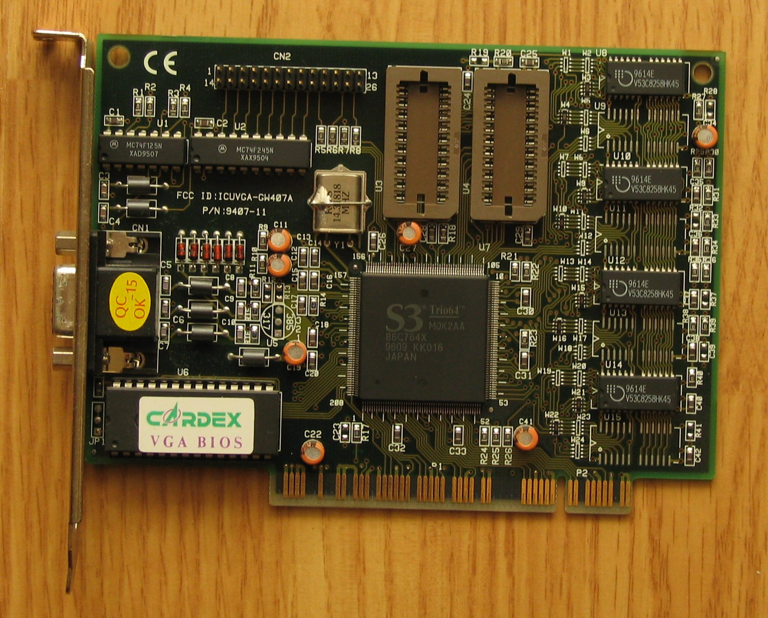 S3 Trio64 graphics card